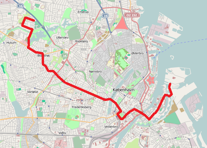 Map of the Copenhagen bus line 2A between Tingbjerg and Refshaleøen as of 13 October 2019. This map may be incomplete, and may contain errors. Don't rely solely on it for navigation.